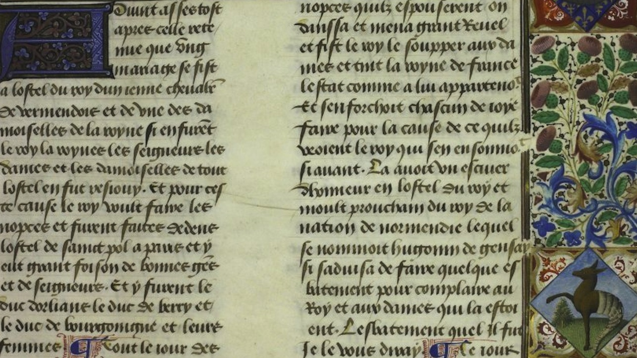 Detail of manuscript leaf from the Harley edition of Jean Froissart's Chroniques, showing a miniature of the 1389 Bal des Ardents titled "Dance of the Wodewoses"